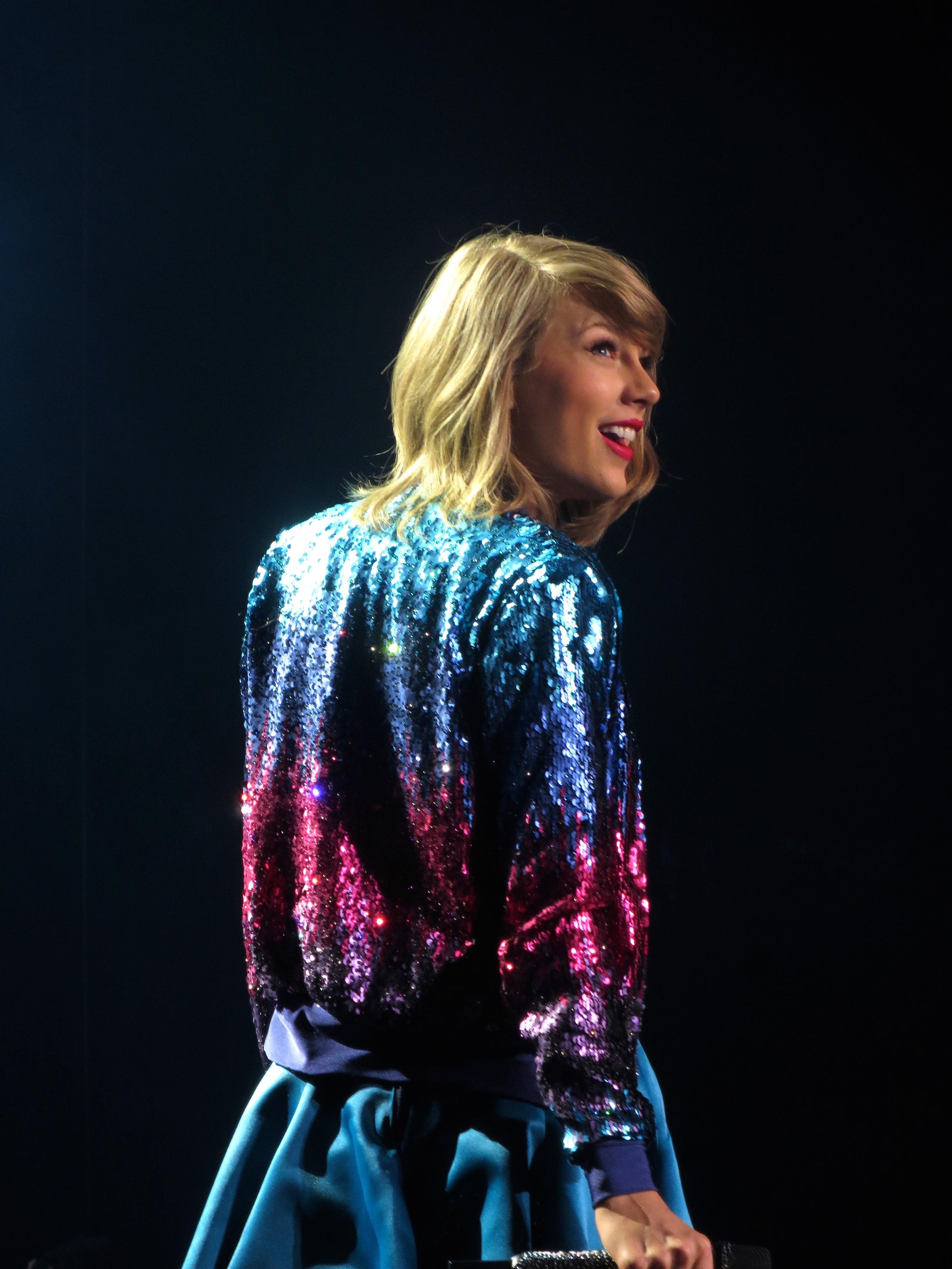 Taylor Swift 2